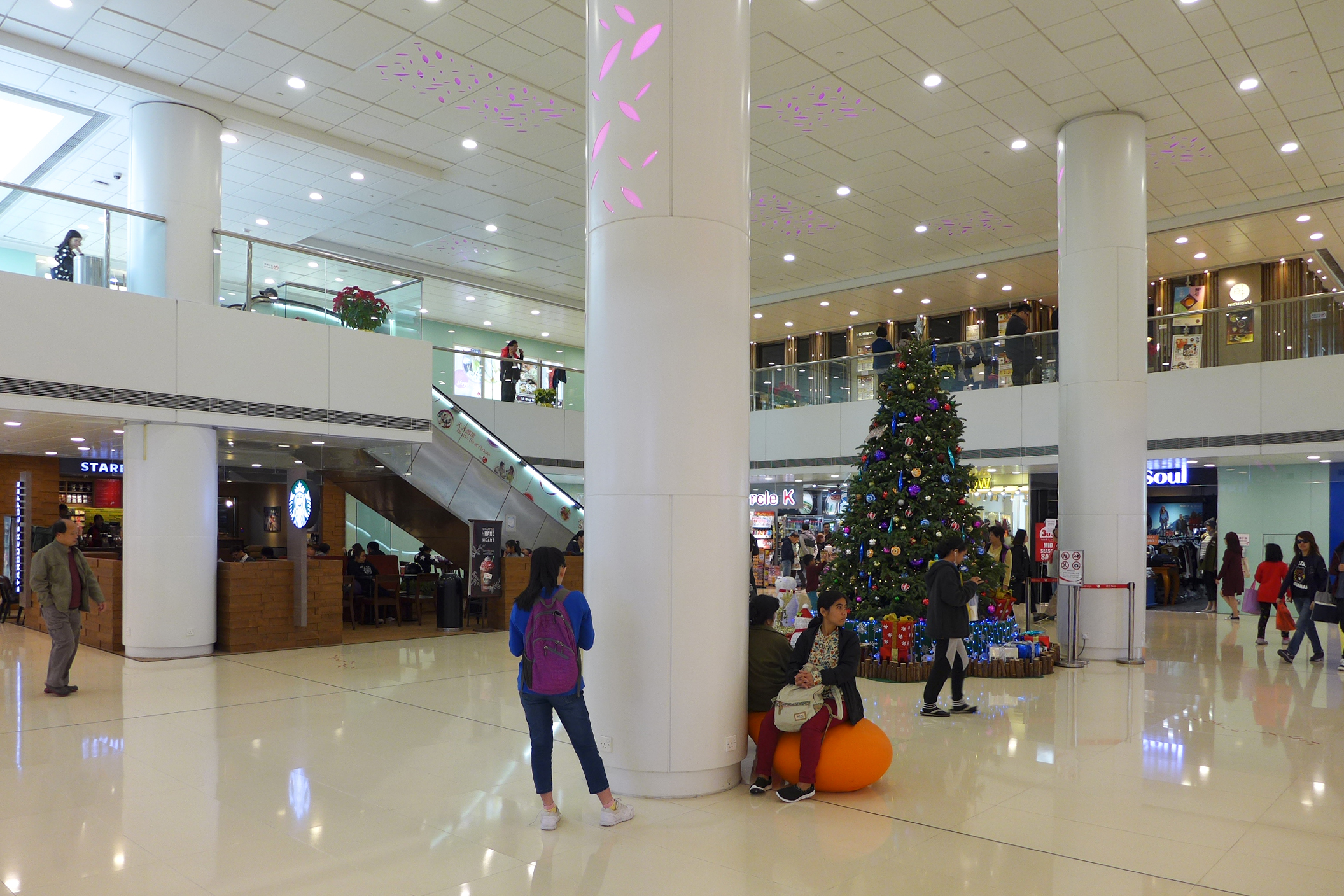 Fortune City One